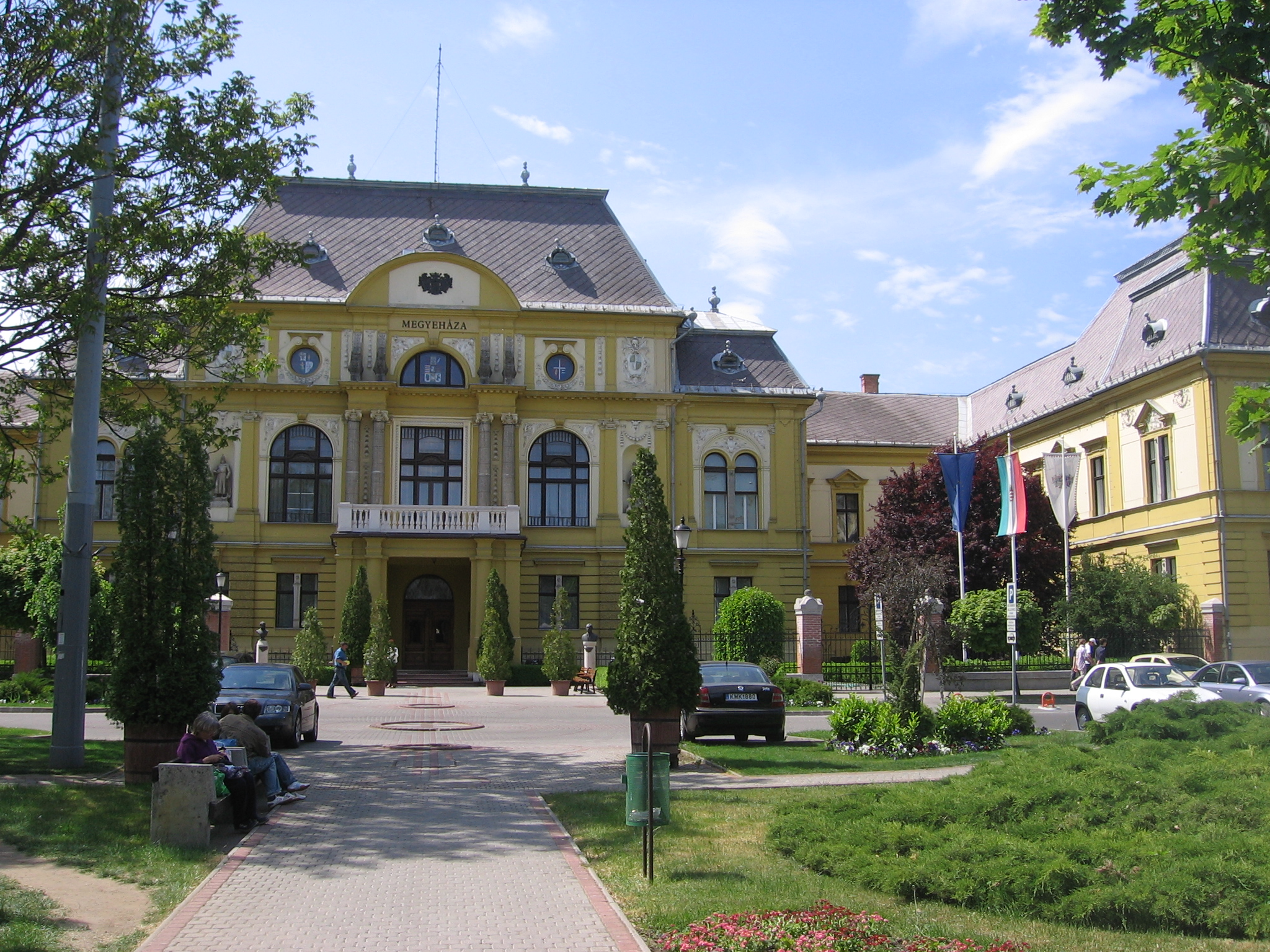 County government building (megyehaza) in Nyíregyháza Siedziba władz komitatu (megyehaza) w Nyíregyháza